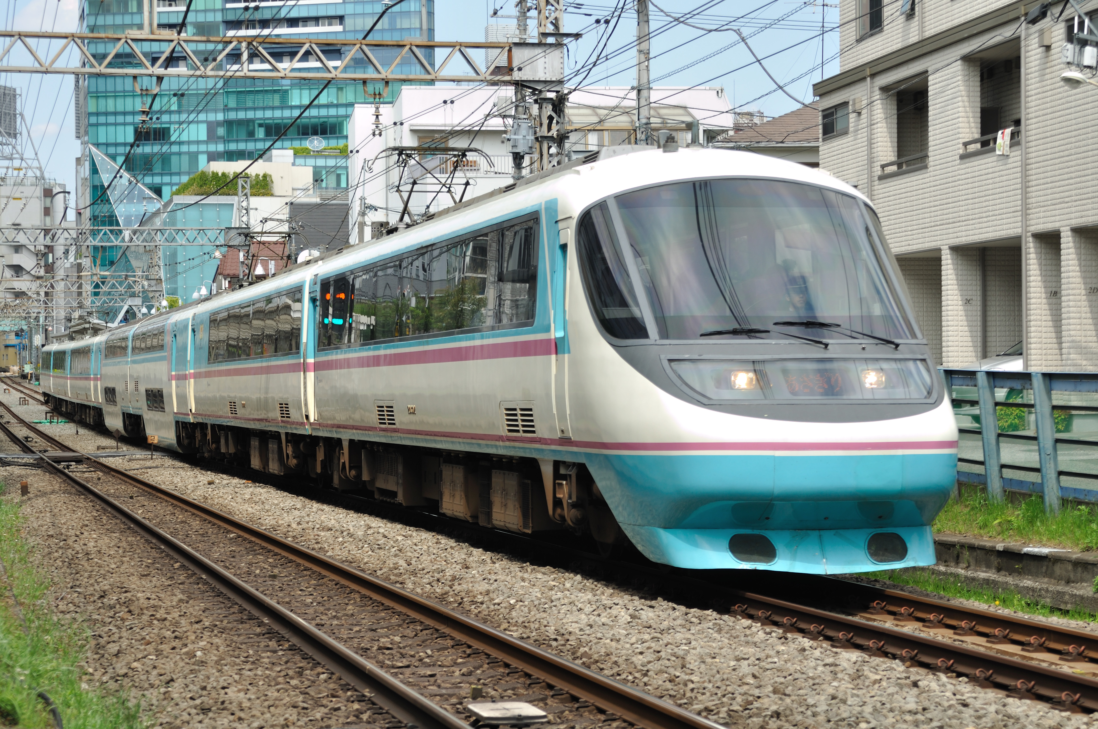 An Odakyu 20000 series RSE Romancecar EMU on an Asagiri service